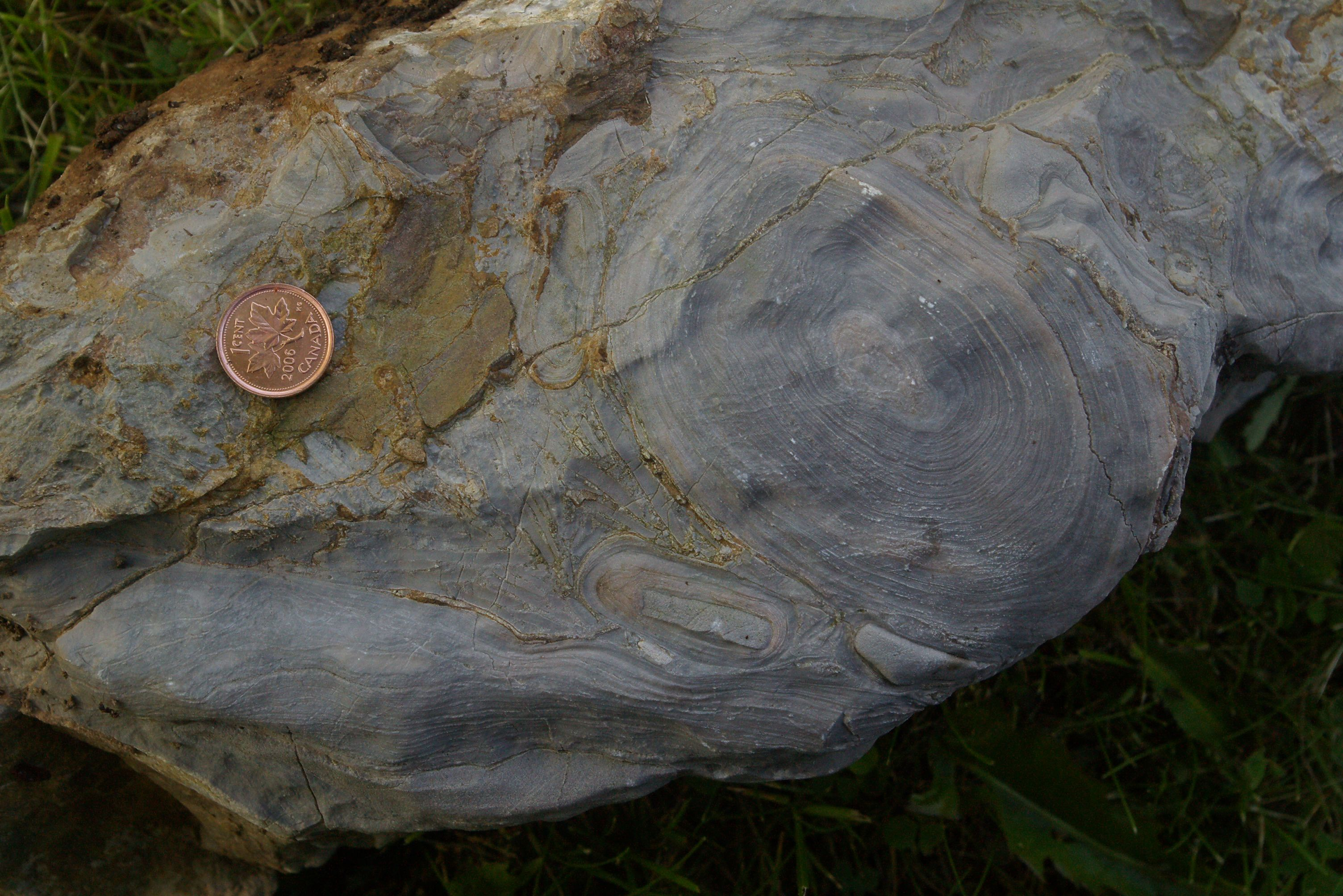 Photo of Stromatolite in Limestone